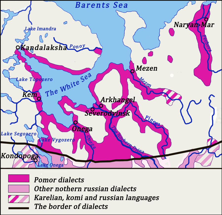 Pomor dialect of russian language